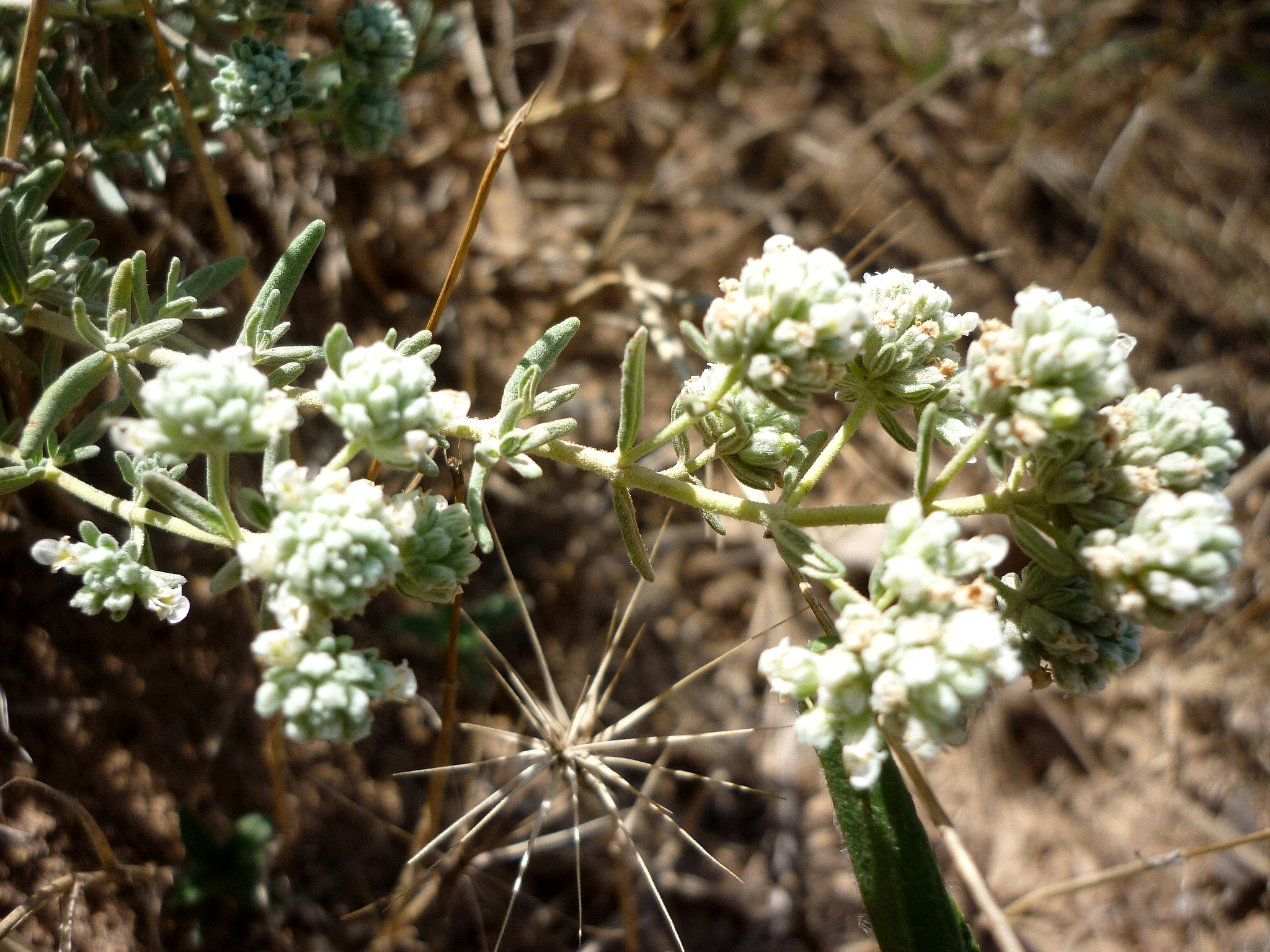 Teucrium polium . In Pinós (Solsonès - Catalunya). To 700 m. altitude